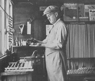 A circa 1920 photograph of English golf professional James Bradbeer in his shop. He was both a maker of golf balls and clubs.